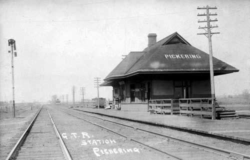 Grand Trunk Railway station Pickering, Photo: Herington & Son, Trenton, ca. 1910